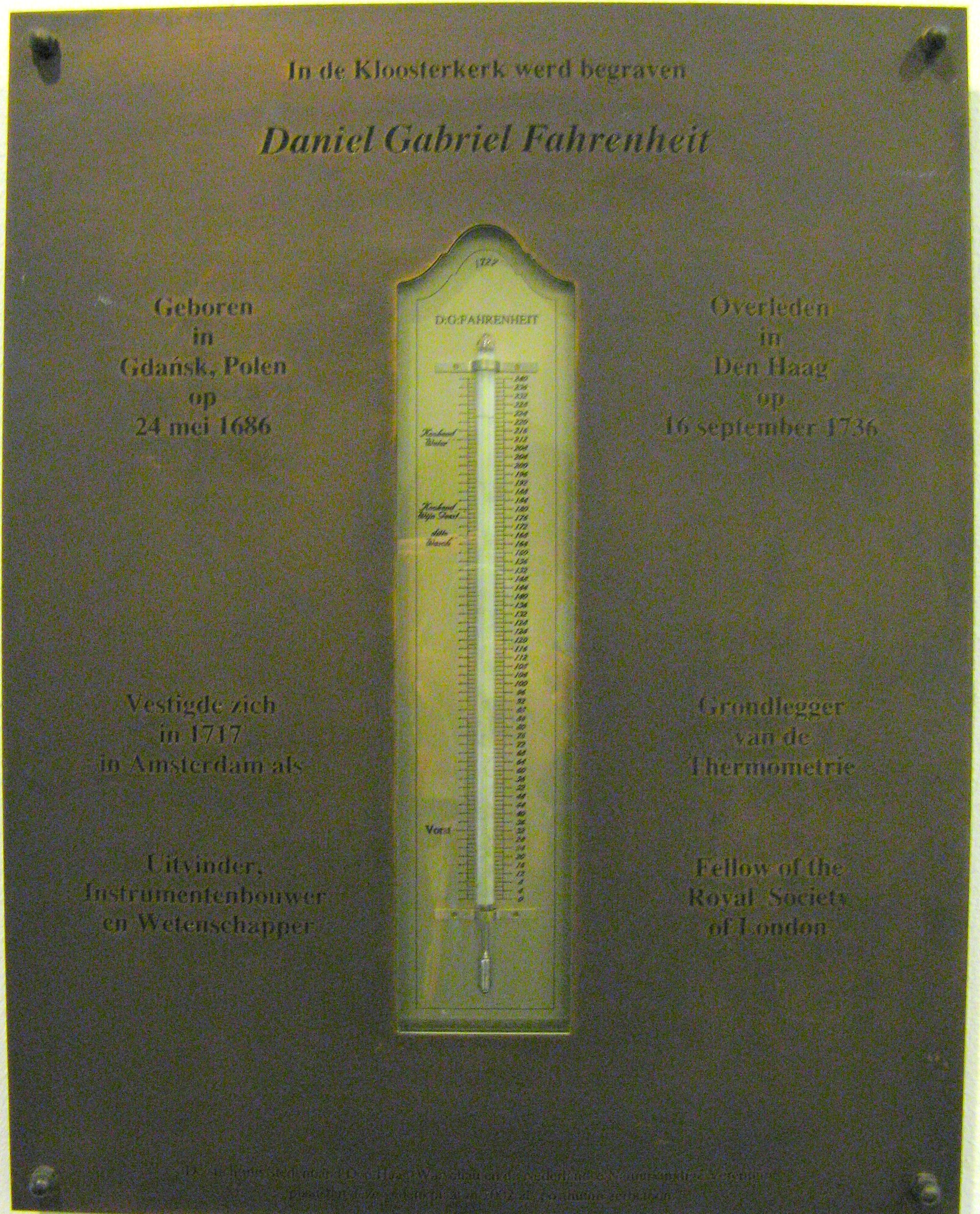 Daniel Gabriel Fahrenheit, place of burial